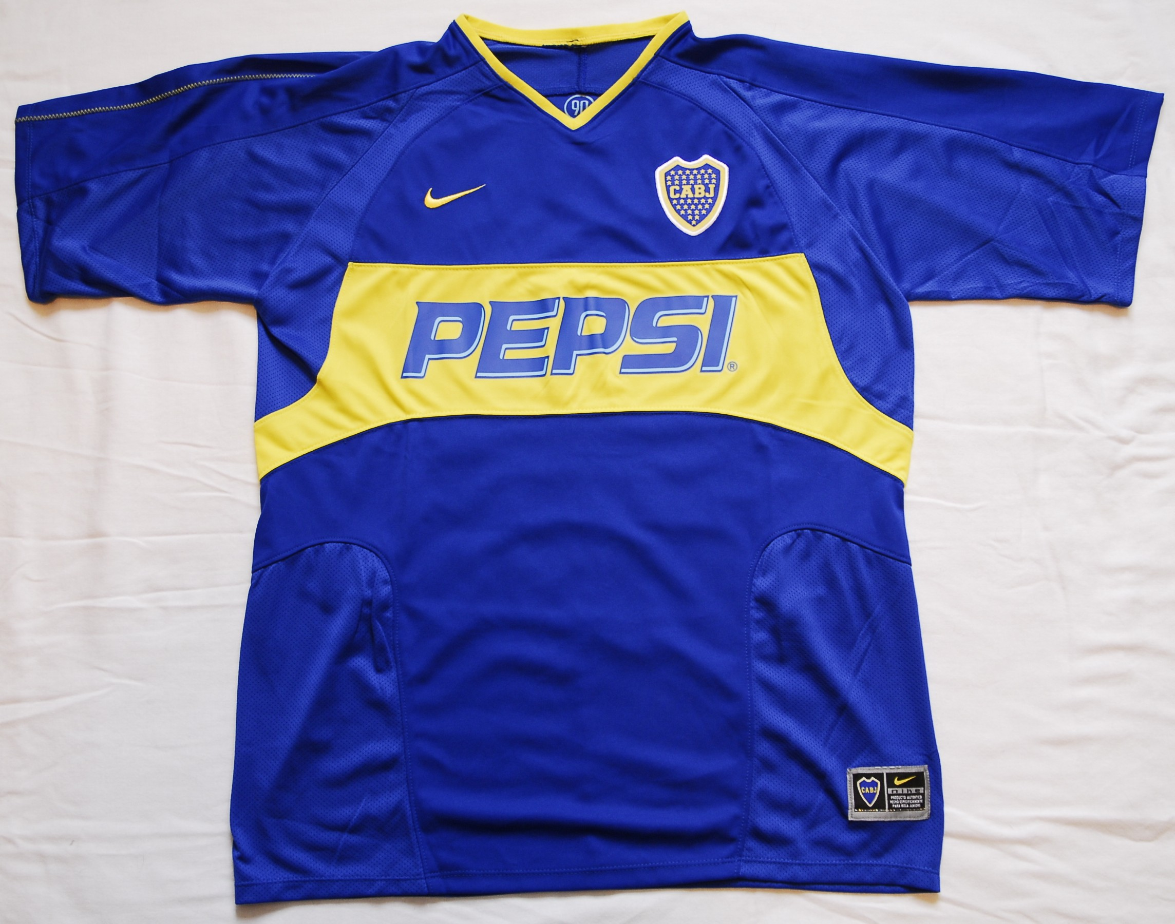 Boca Juniors 2003 Home Jersey